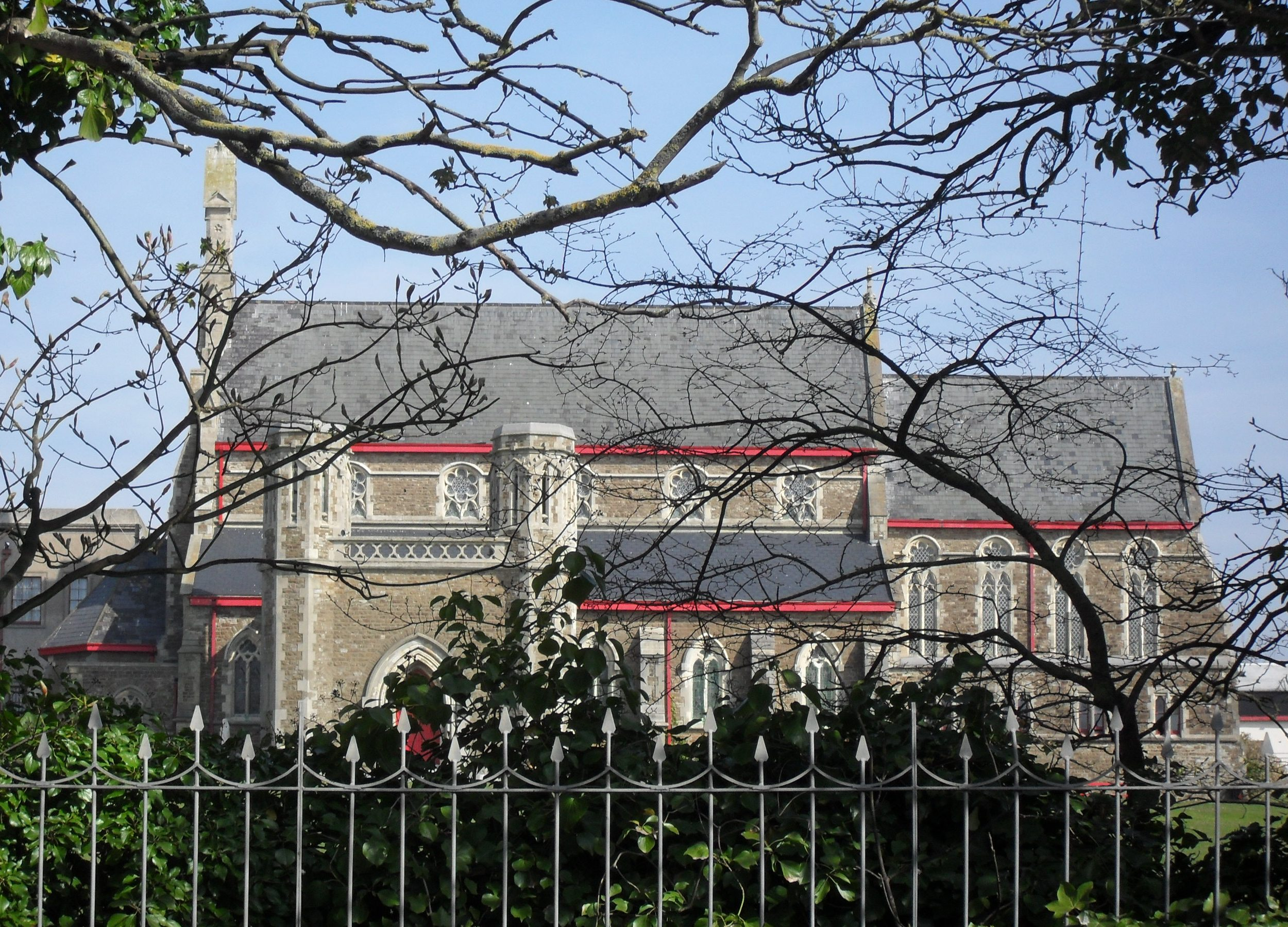 Former St Michael's Chapel at the Convent of the Holy Child Jesus, Magdalen Road, St Leonards-on-Sea, Hastings, East Sussex, England. Built in 1848 by A.W.N. Pugin in the Decorated Gothic Revival style, and used for public Roman Catholic worship for a time. Listed at Grade II* by English Heritage (IoE Code 293987)